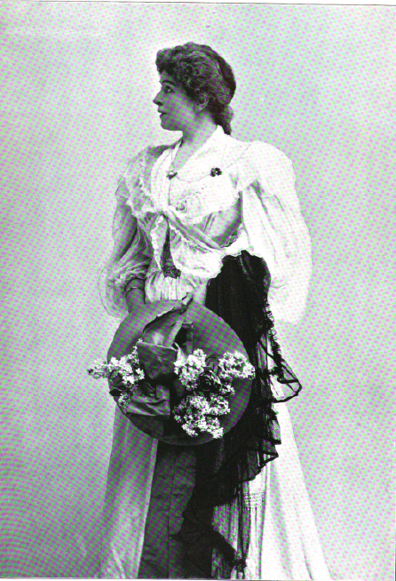 Mrs. Leslie Cater, c. 1896